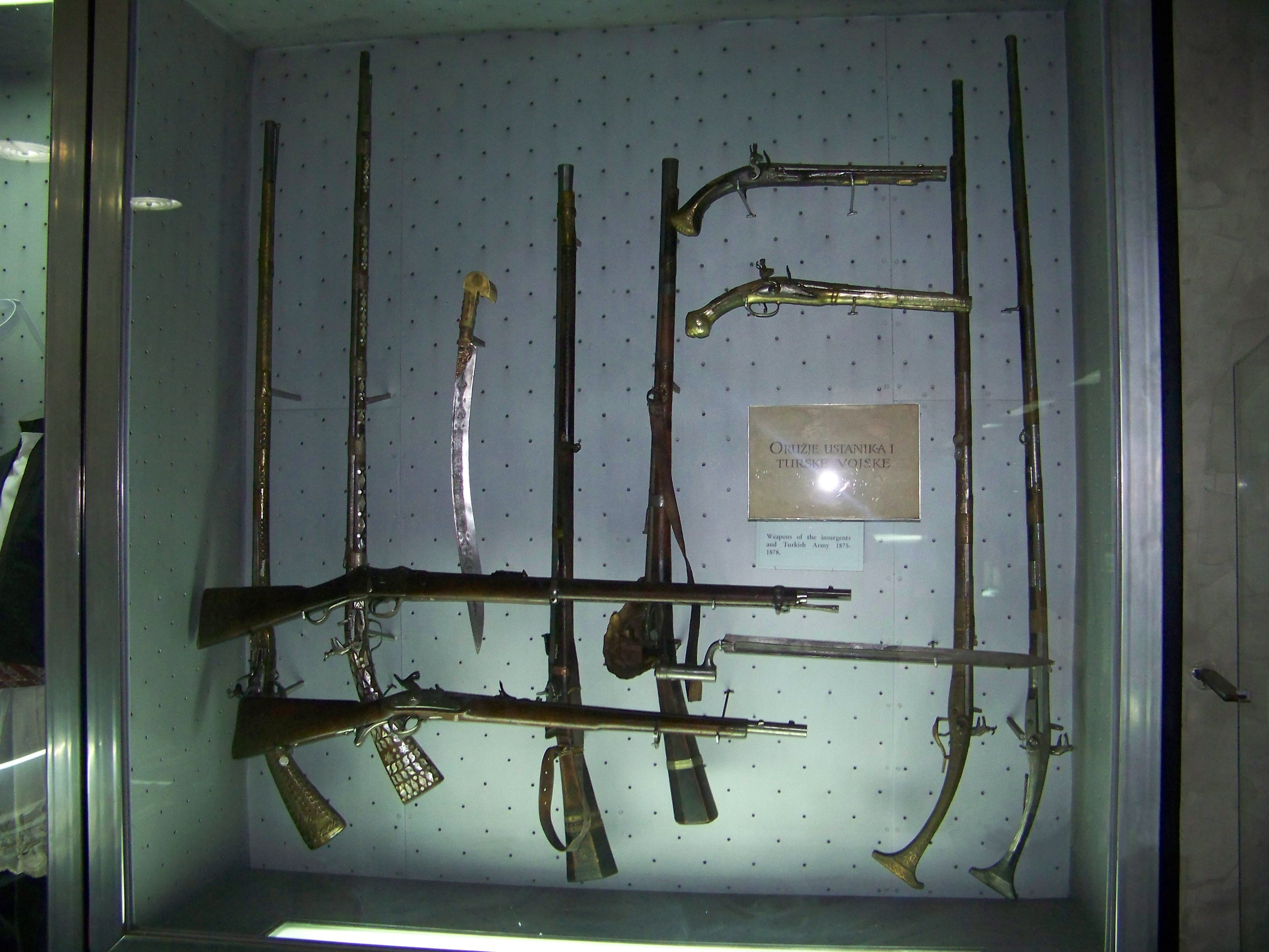 Weapons from 1875-1878 uprising in Bosnia and Herzegovina